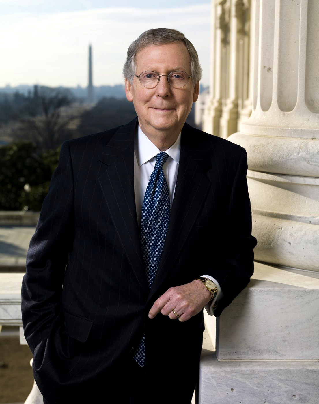 Official photo of United States Senator and Majority Leader Mitch McConnell (R-KY)